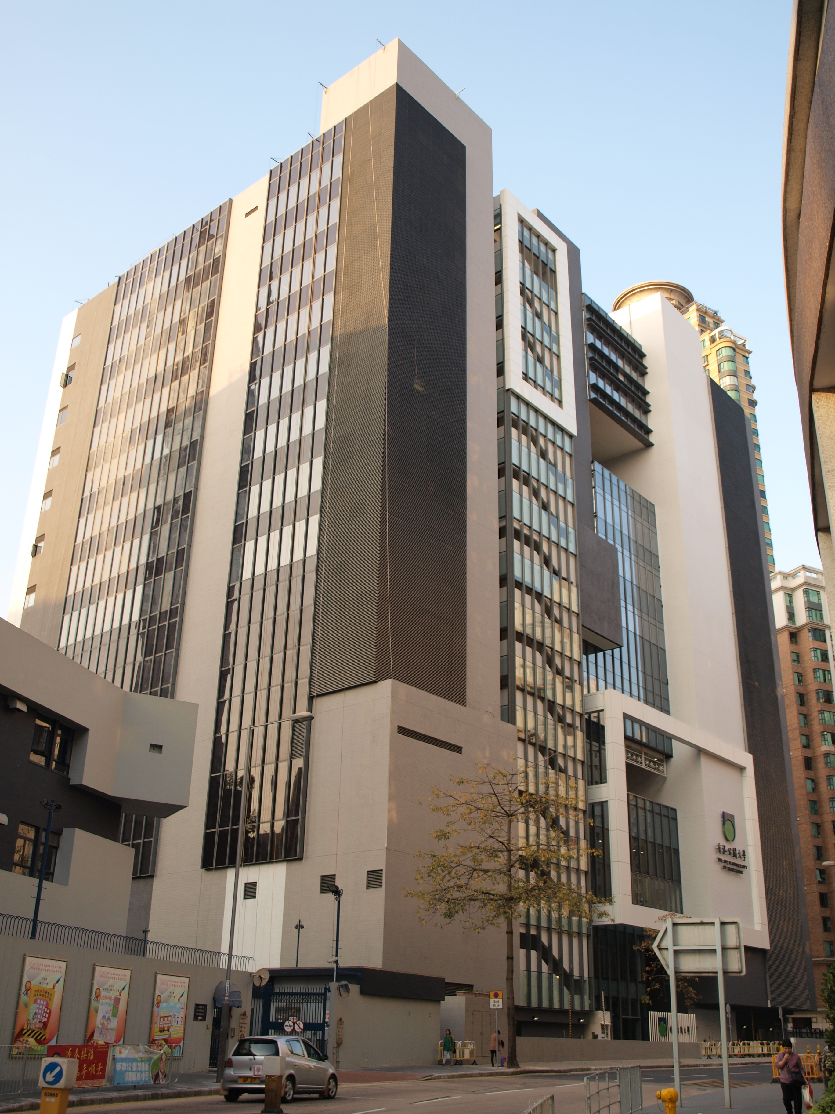 The Open University of Hong Kong - Jockey Club Campus viewed from Chung Hau Street.